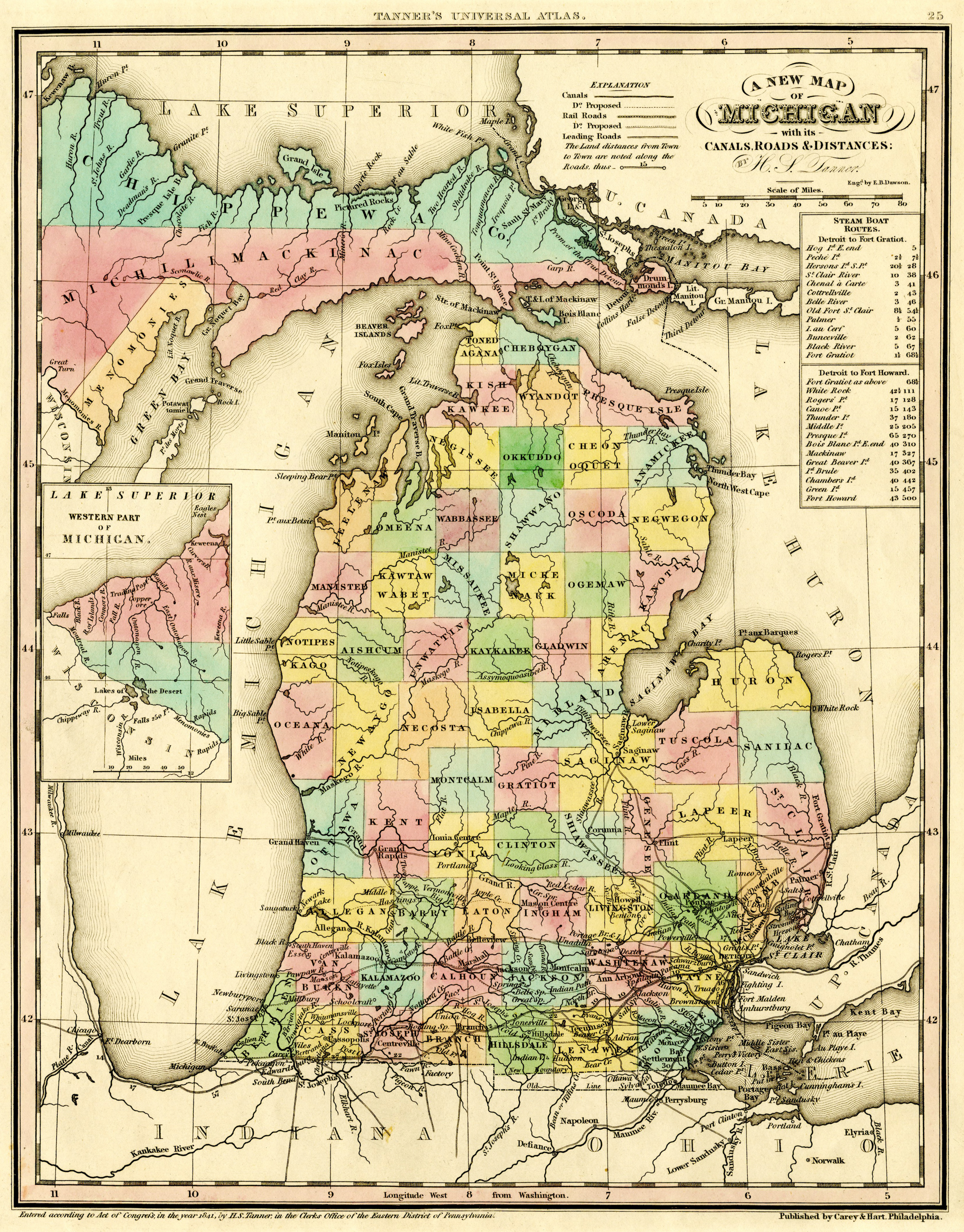 A new map of Michigan with its canals, roads & distances / by H.S. Tanner ; engd. by E.B. Dawson. Philadelphia : Carey & Hart, [1842]. Scan of a map in the collection of the Michigan State University Map Library. Original map was detached from an atlas published in 1842: A new universal atlas. Philadelphia : Carey & Hart, 1842. MSU Libraries catalog record: The map shows early names (assigned 1840) of northern Michigan counties, many of which were renamed in 1843. Some of these names are misspelled: Correct spelling / Name on map: Kautawaubet / Kawtawwabet Keskkauko / Kishkawkee Leelanau / Leelenaw Mecosta / Necosta Meegisee / Negissee Mikenauk / Mickenauk Notipekago / Notispekago Shawono / Shawwano Wabassee / Wabbassee